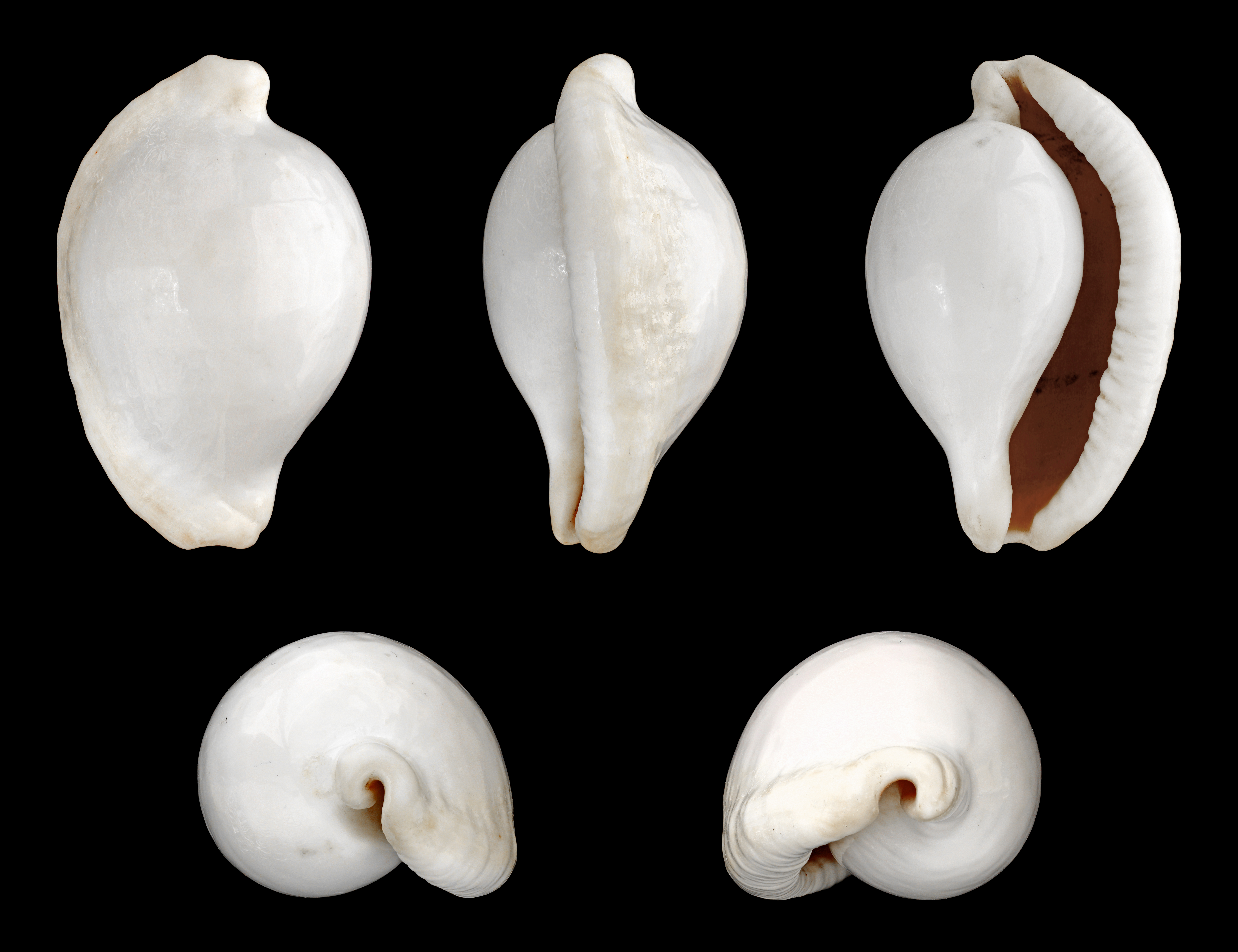 Common Egg Cowry; Length 6.5 cm; Originating from the Indo-Pacific; Shell of own collection, therefore not geocoded. Dorsal, lateral (right side), ventral, back, and front view.